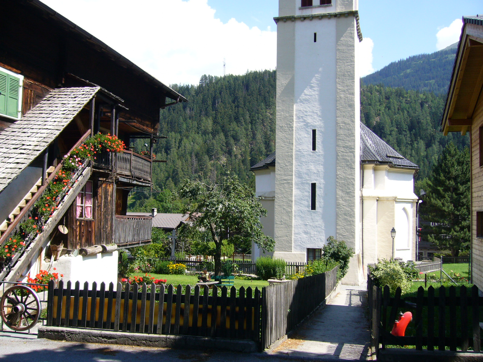 Church in Lax, village in the canton of Vallais, Switzerland. Picture taken by Peter Berger, July 17, 2006.